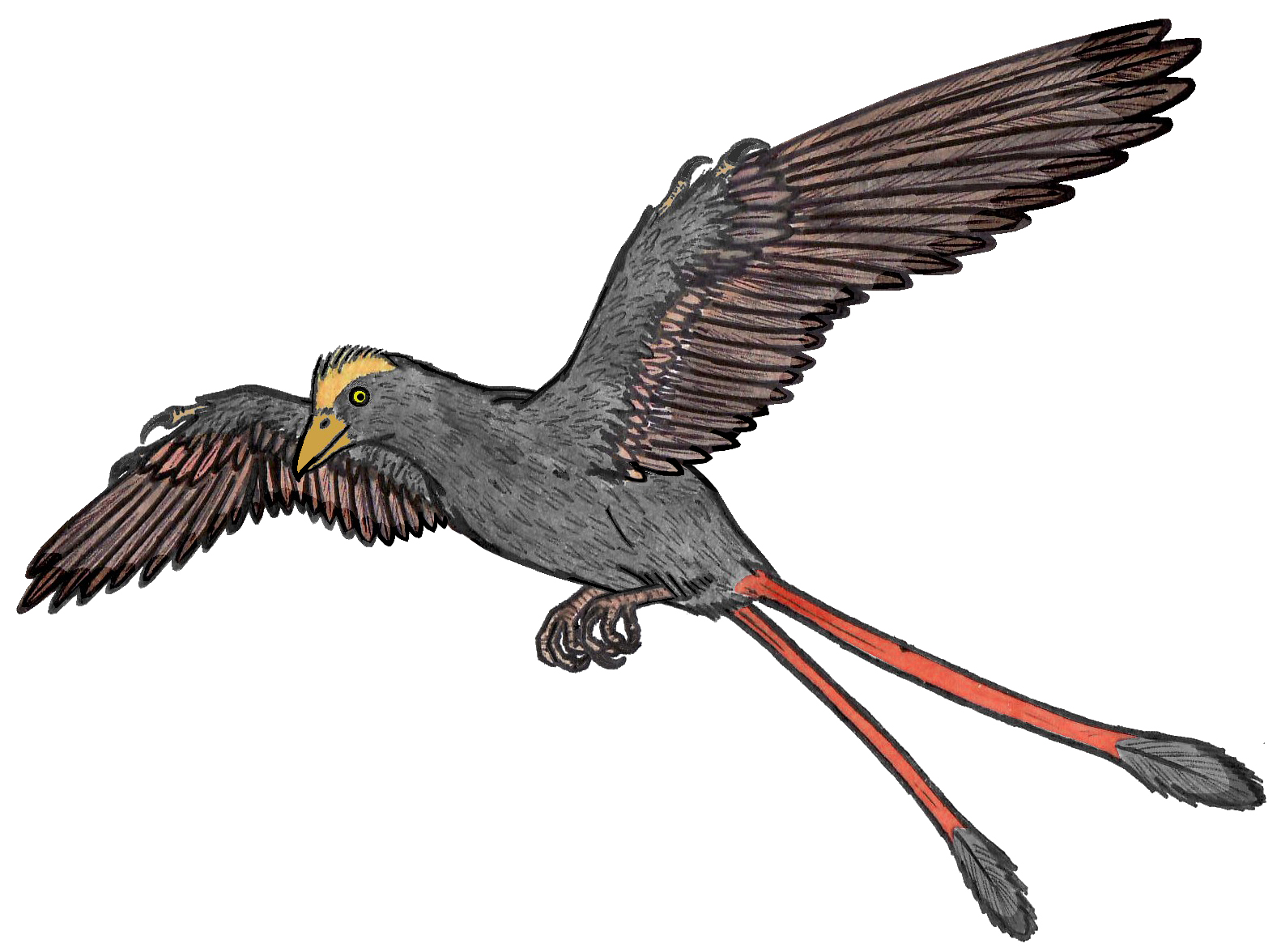 Restoration of Changchengornis, a bird dated to the Cretaceous period, about 125 MYA. The illustration is based on images found here: [1], [2], [3] and [4].